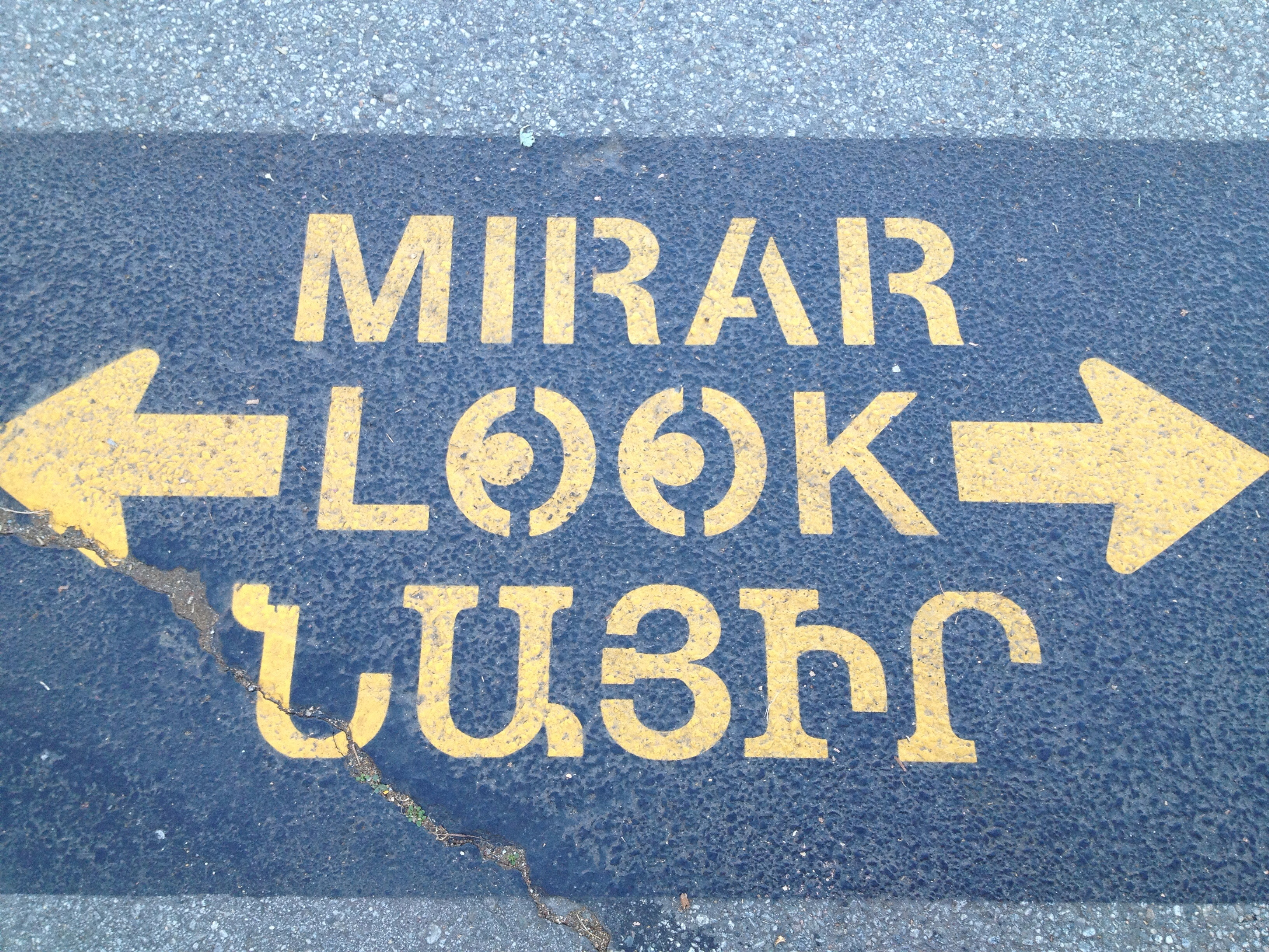 A sidewalk sign in Spanish, English and Armenian in Glendale, California